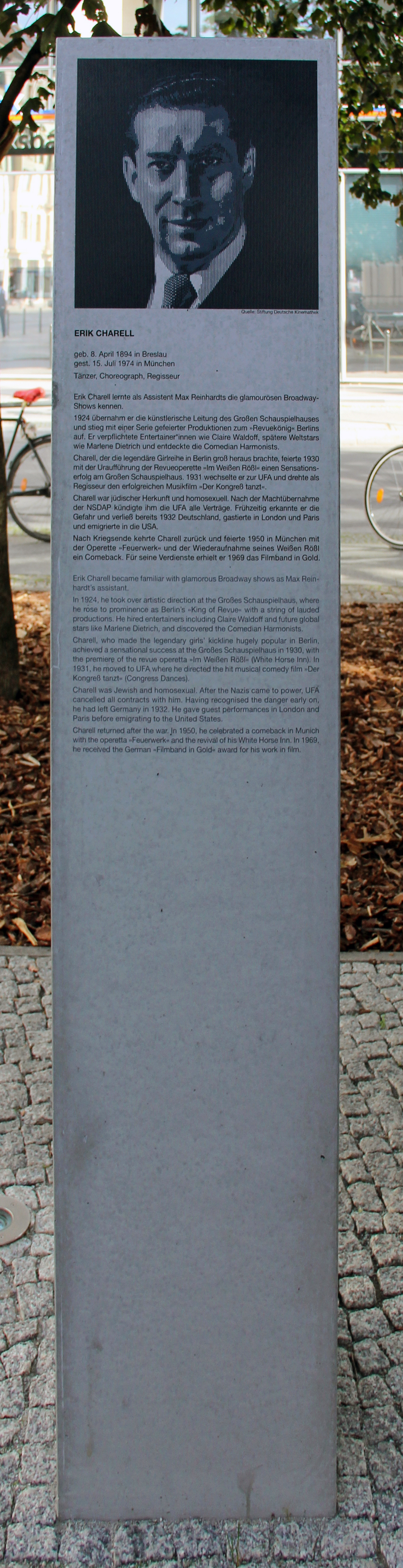 Memorial plaque, Erik Charell, Friedrichstraße 107, Berlin-Mitte, Deutschland